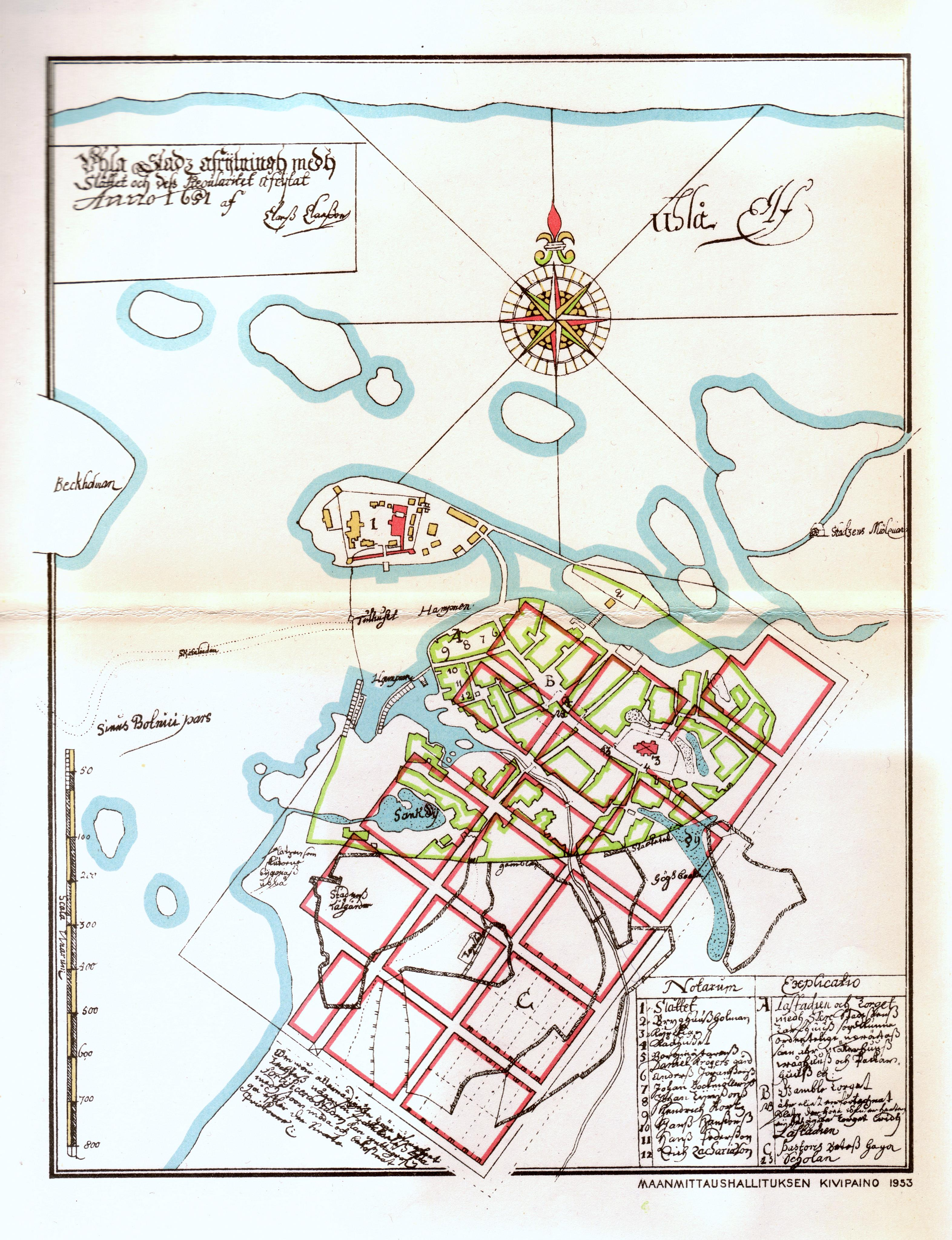 An old map of Oulu, Finland was drawn by Claes Claesson in 1651. The rectangular street layout plan is done with red colour.